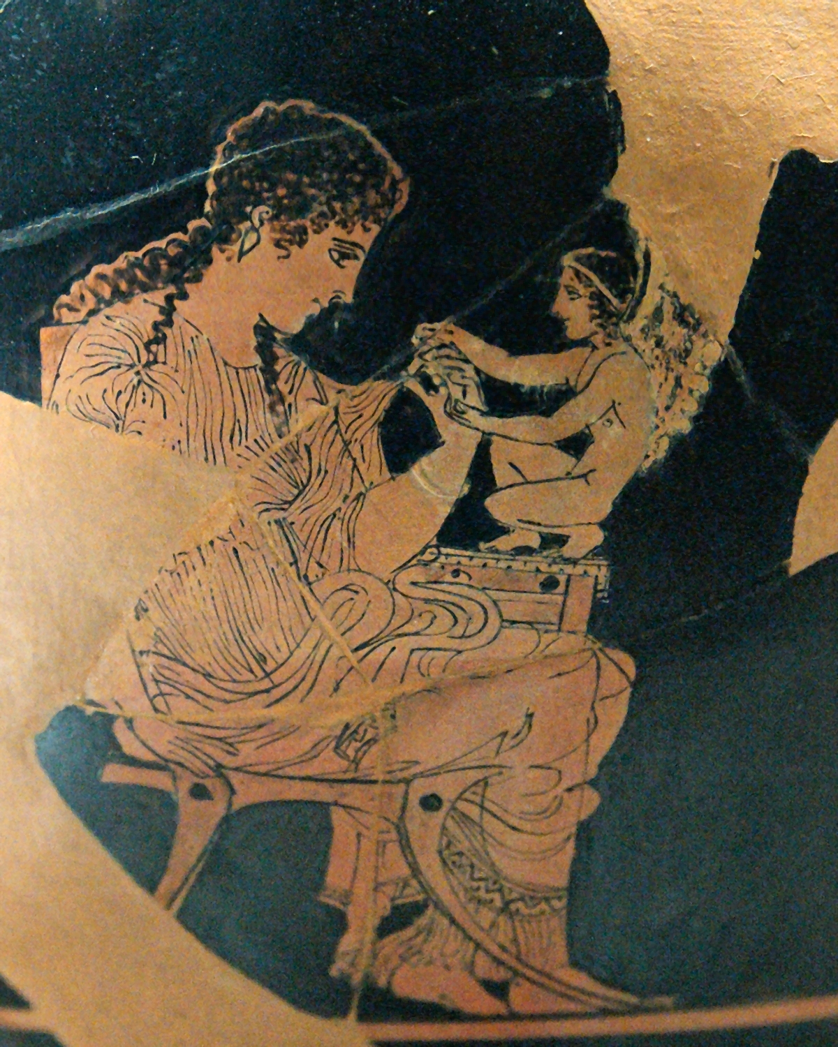 Woman and Eros. Attic red-figured skyphos, ca. 420–410 BC. From Athens.